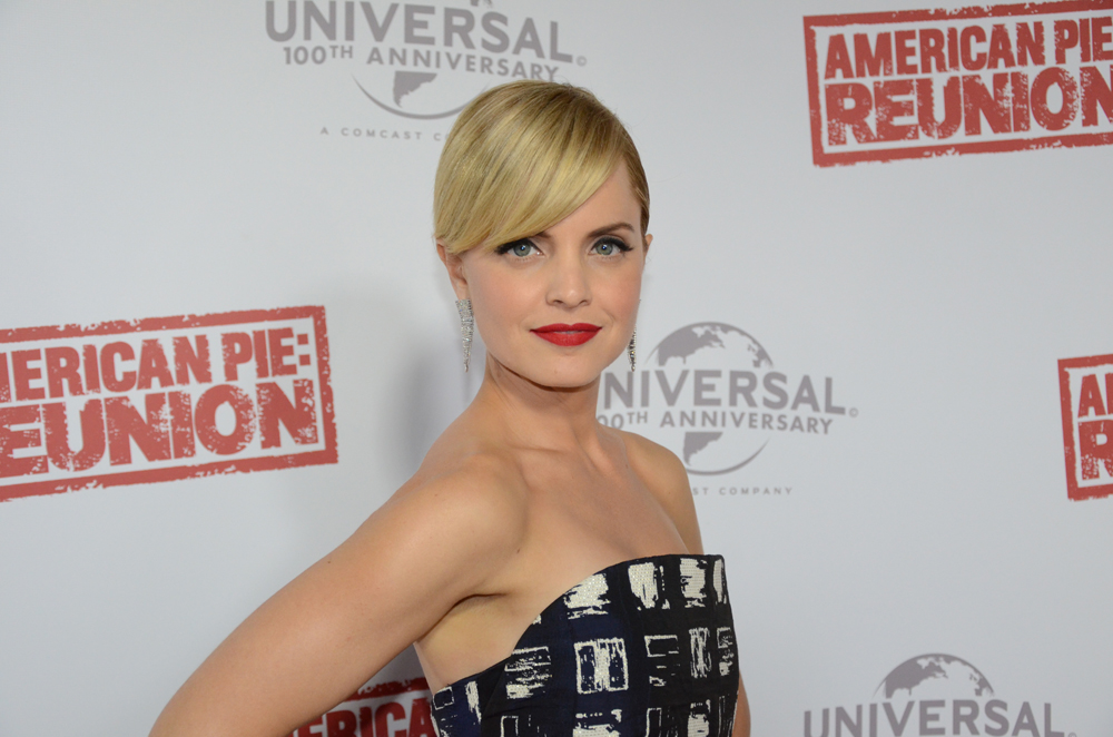 American Reunion Premiere In Melbourne: Australia Loves Latest Pie Flick